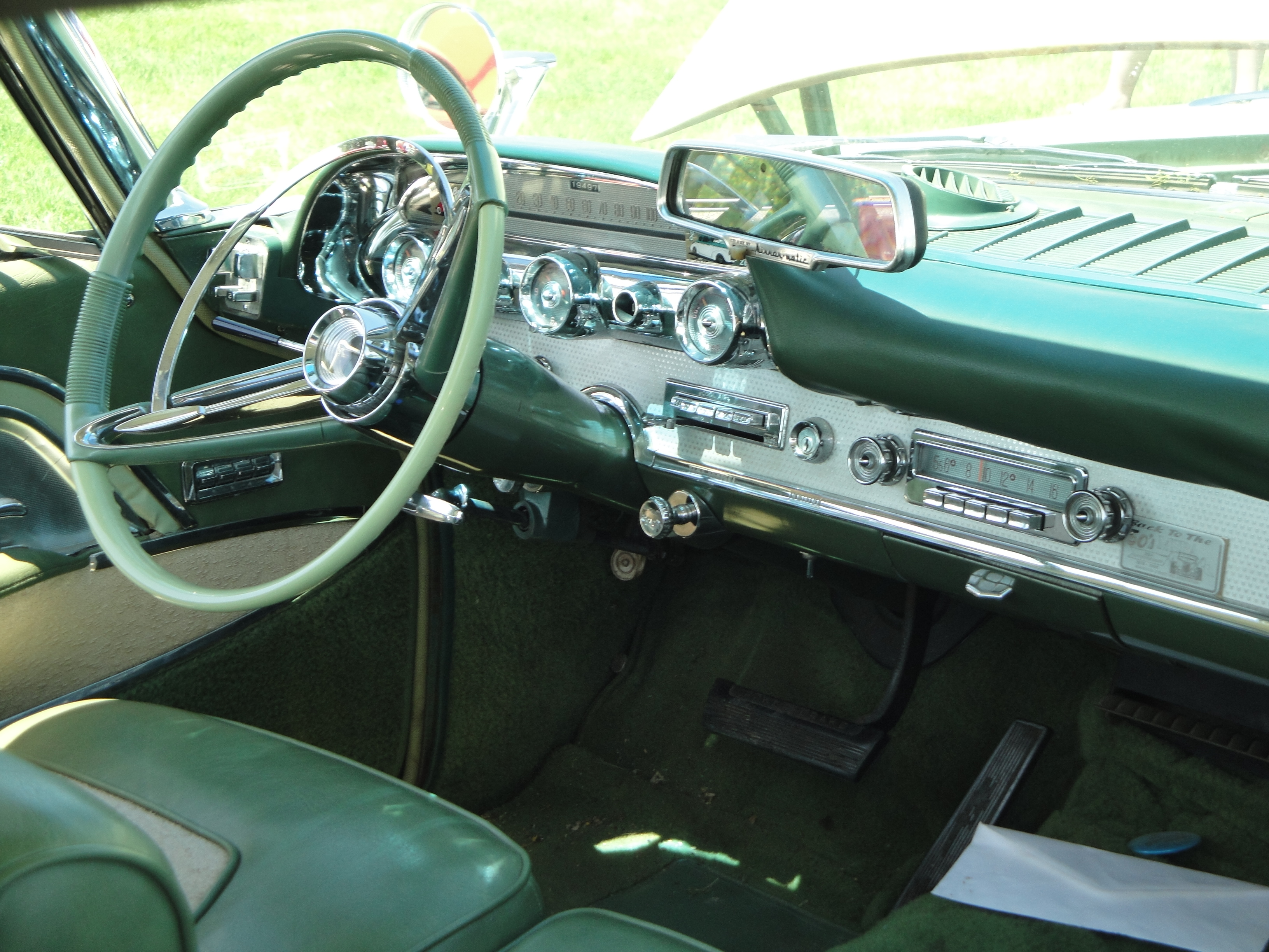 Midwest Mopars 2011 Mopars in the Park